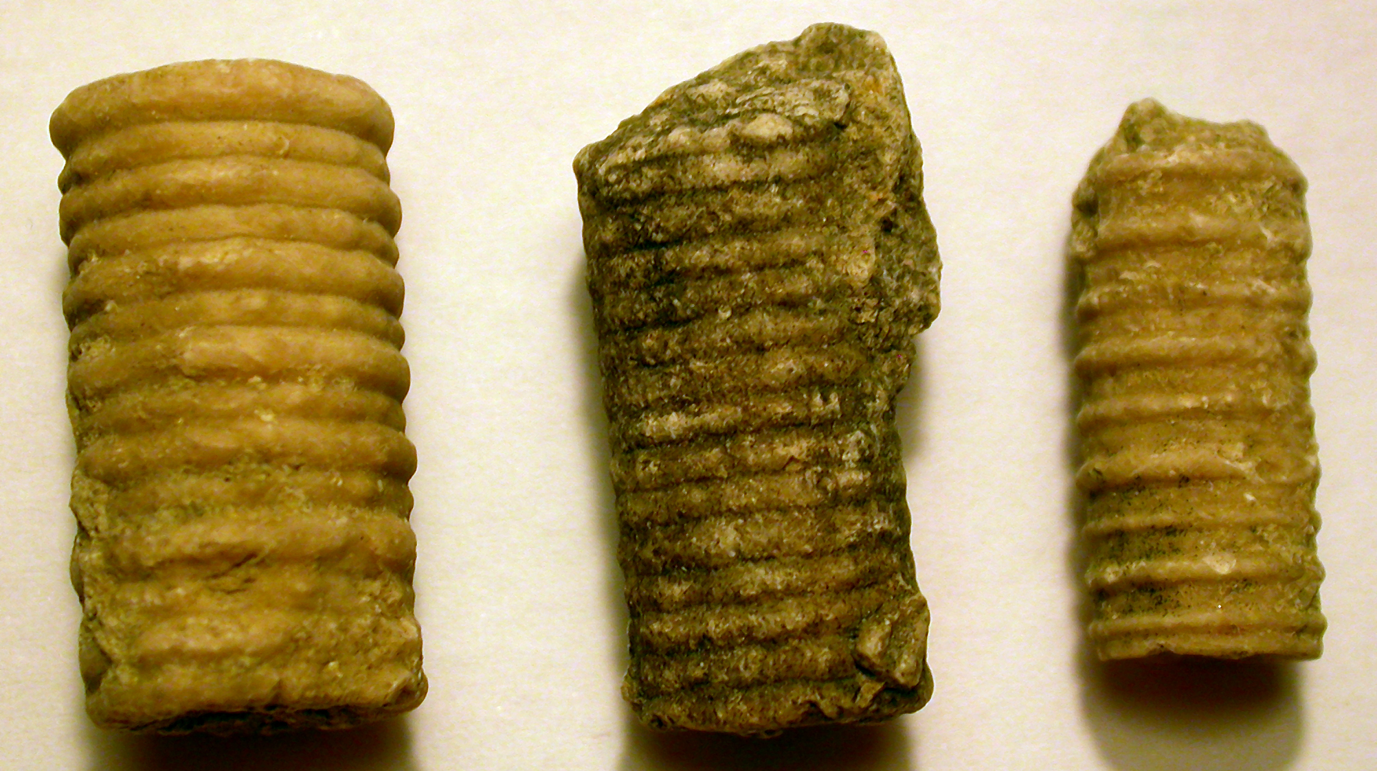 Fossil; Crinoids (Crinoidea) - stem parts